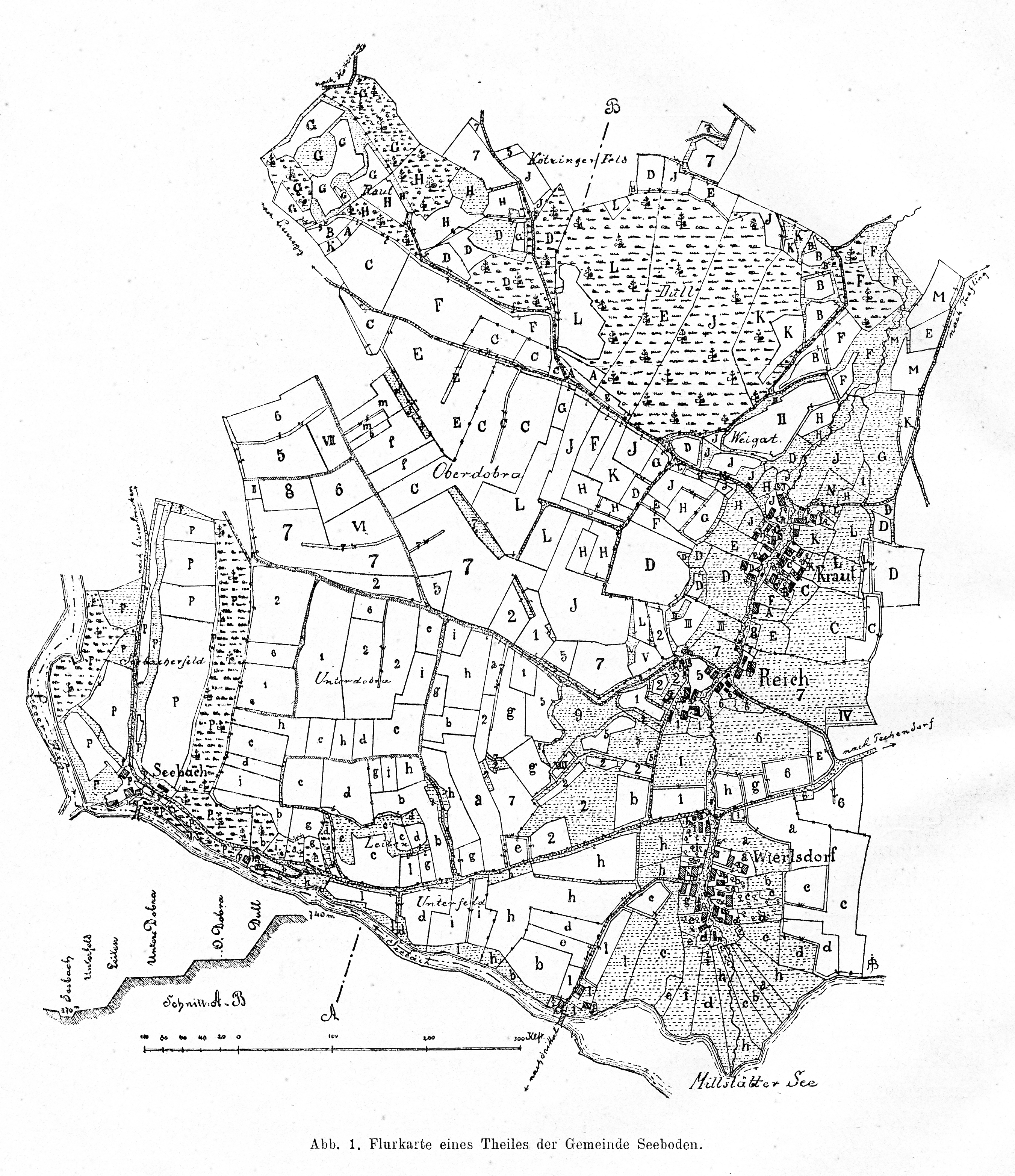 Map of the land part of the community Seeboden at lake Millstatt (Millstätter See) Spittal an der Drau / Carinthia / Austria / EU.